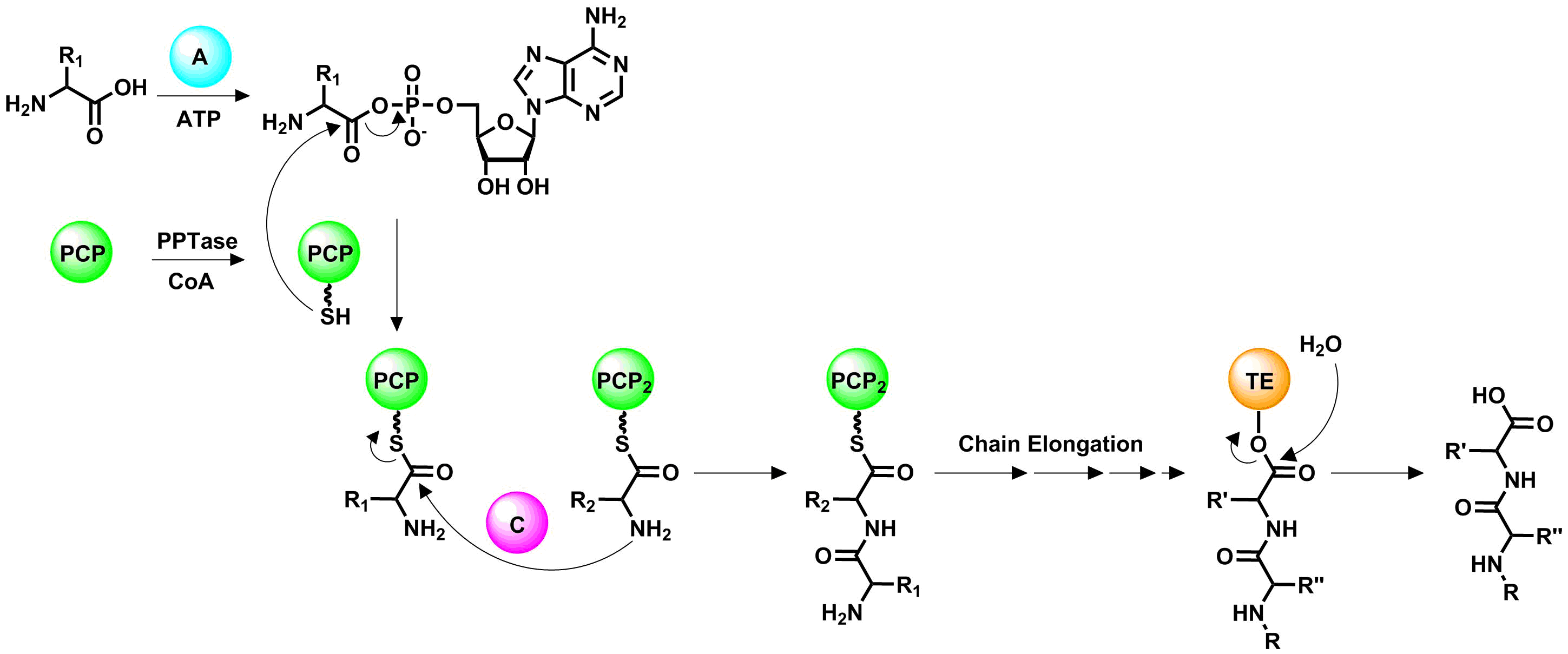 The NRPS reactions catalyzed by the fundamental domains.